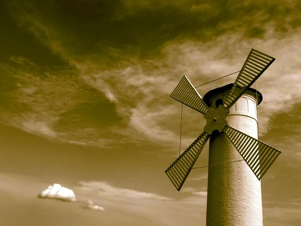 Windmill in Świnoujście 'Stawa Młyny'